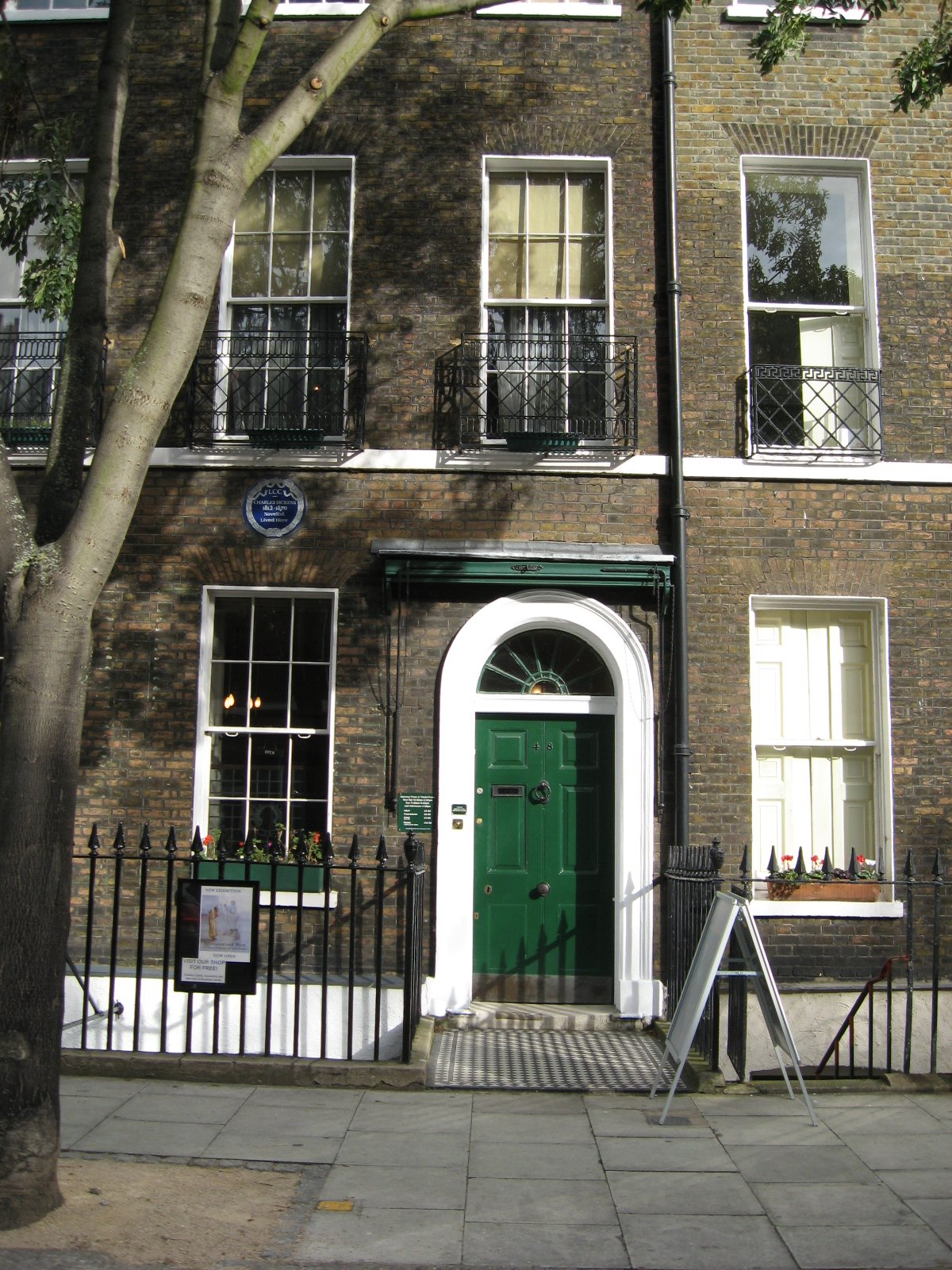 Photograph taken by Jack1956 October 25, 2008